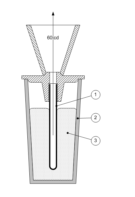 Special version of a "black body" (instrument), used for defining the luminous intensity unit, before its current scientific International Standard (SI) definition